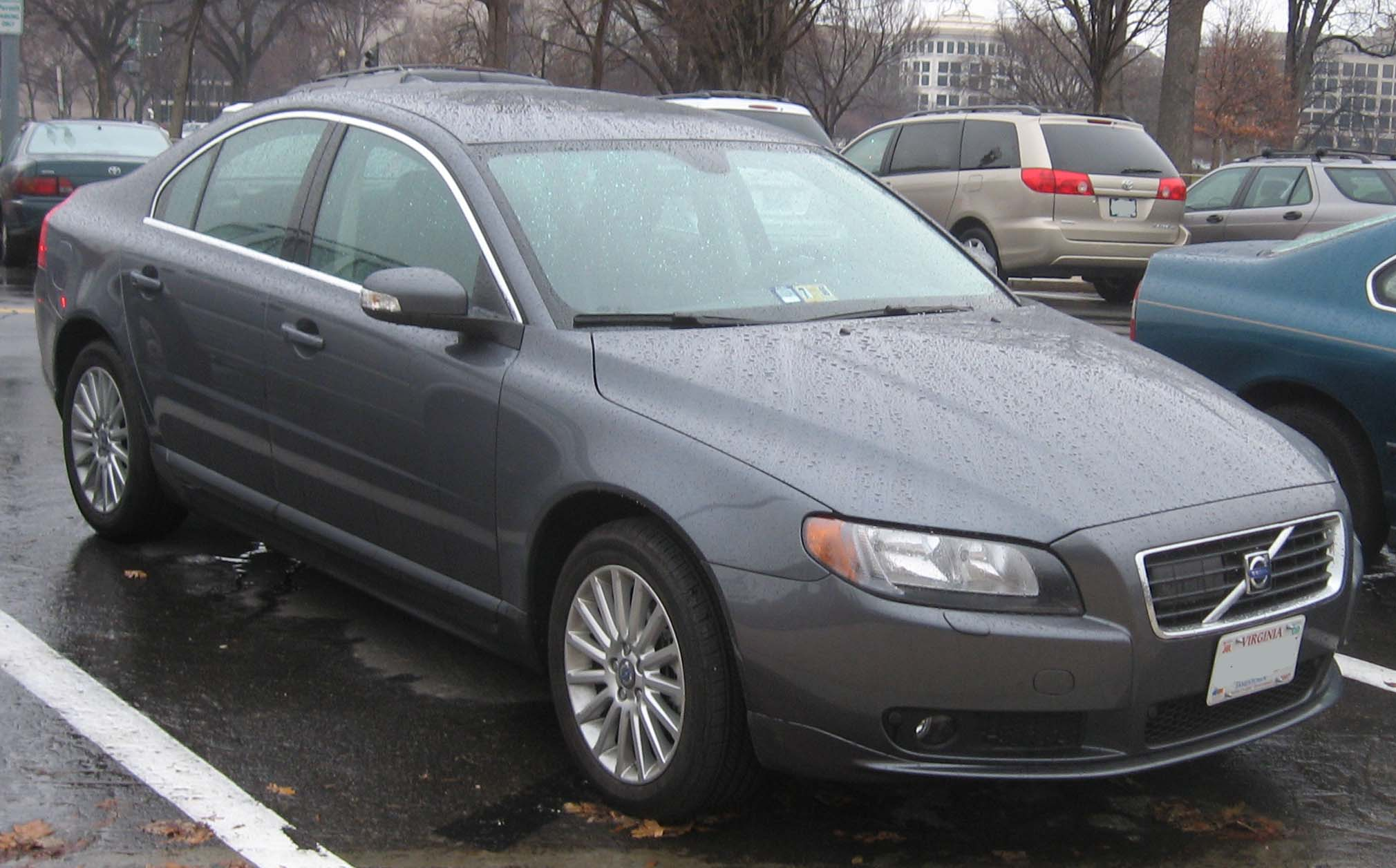 2007-2008 Volvo S80 photographed in Washington, D.C., USA.